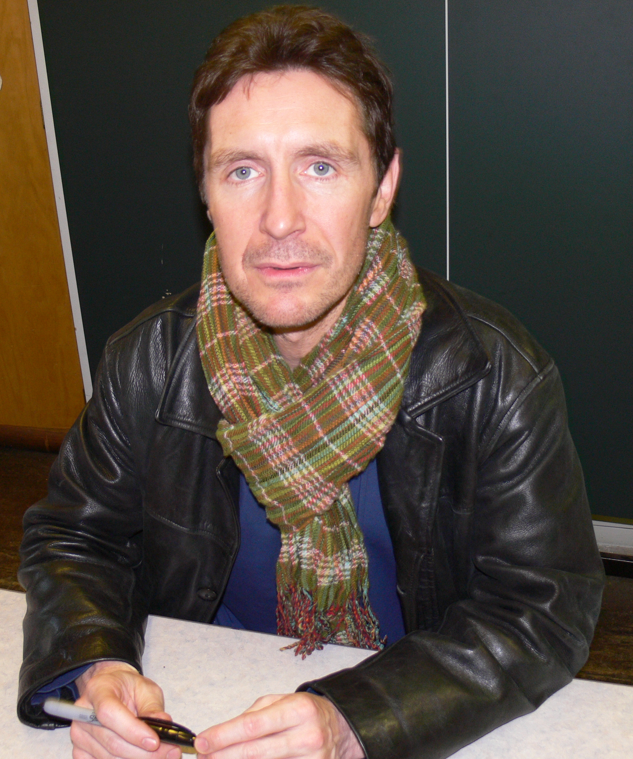 English actor Paul McGann.